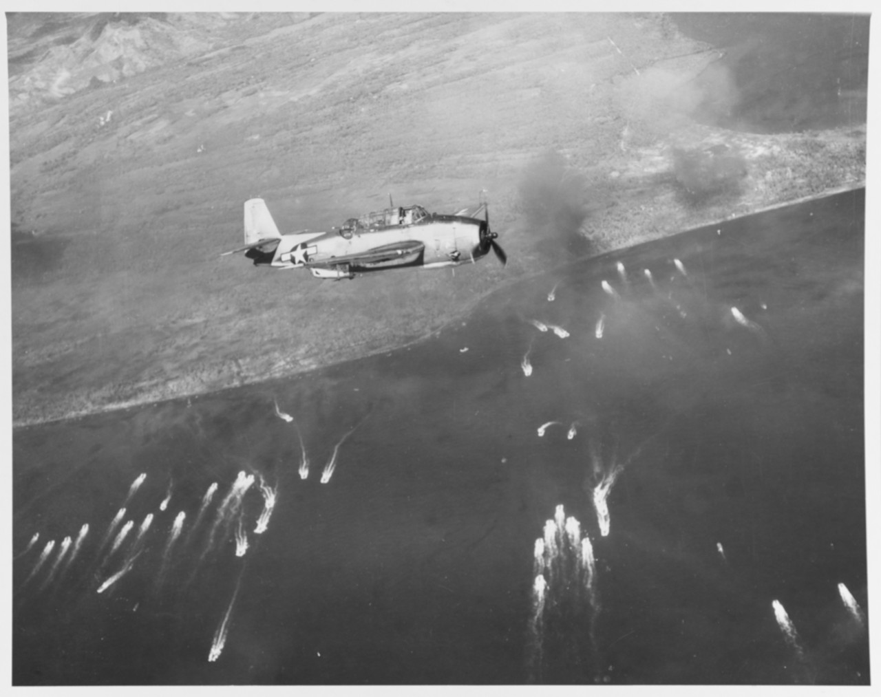 The "Avenger" flying over the landing beaches near Tacloban on 20 October, during the initial landings.